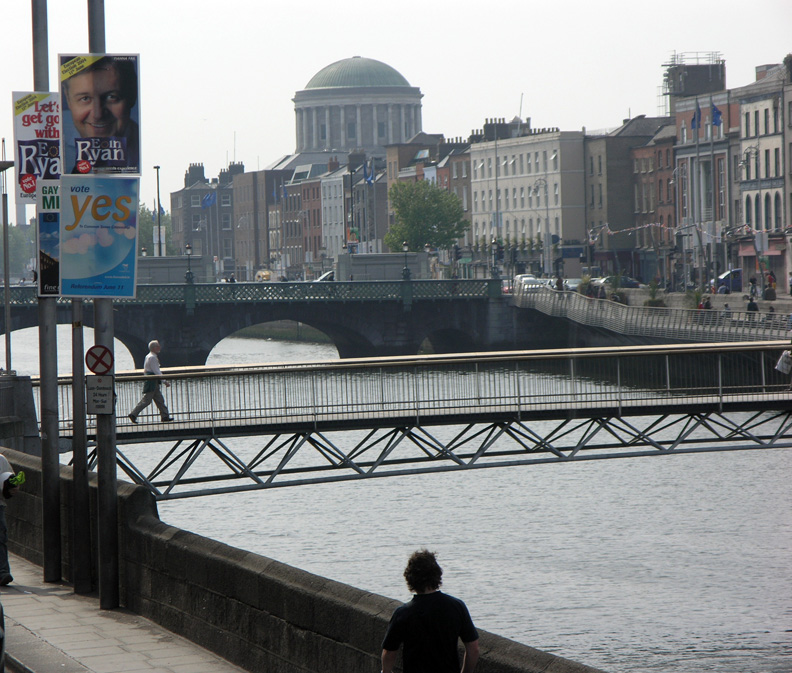 This is an image I took myself using an Olympus C8080W digital camera. It shows the River Liffey in Dublin with the Millennium Bridge and Grattan Bridge crossing it. Also the Four Courts is visible in the background.